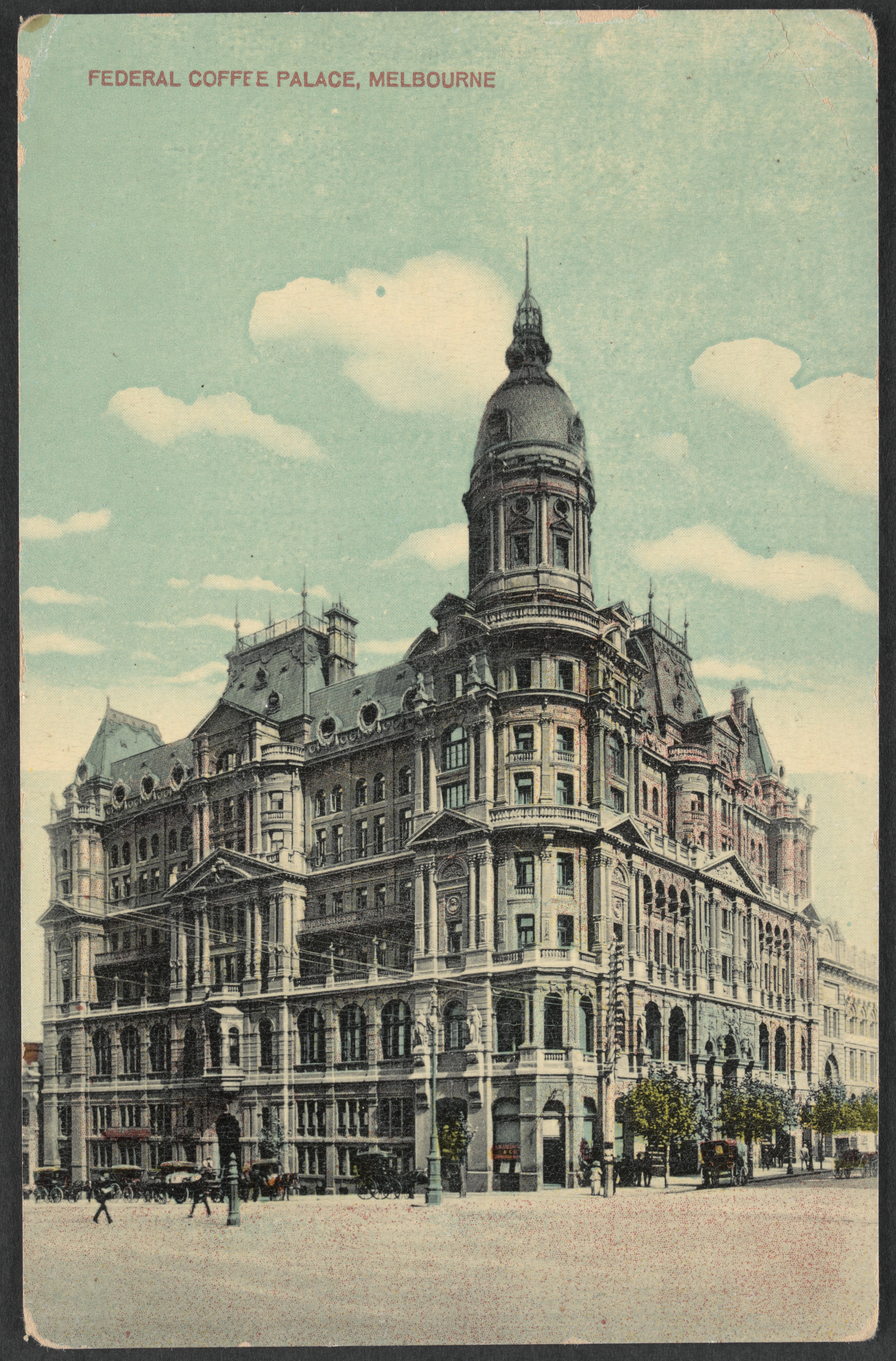 Photograph of the Federal Coffee Palace, corner of King and Collins Streets, Melbourne, Australia, in 1890. Demolished in 1972. Part of the Shirley Jones collection of Victorian postcards.